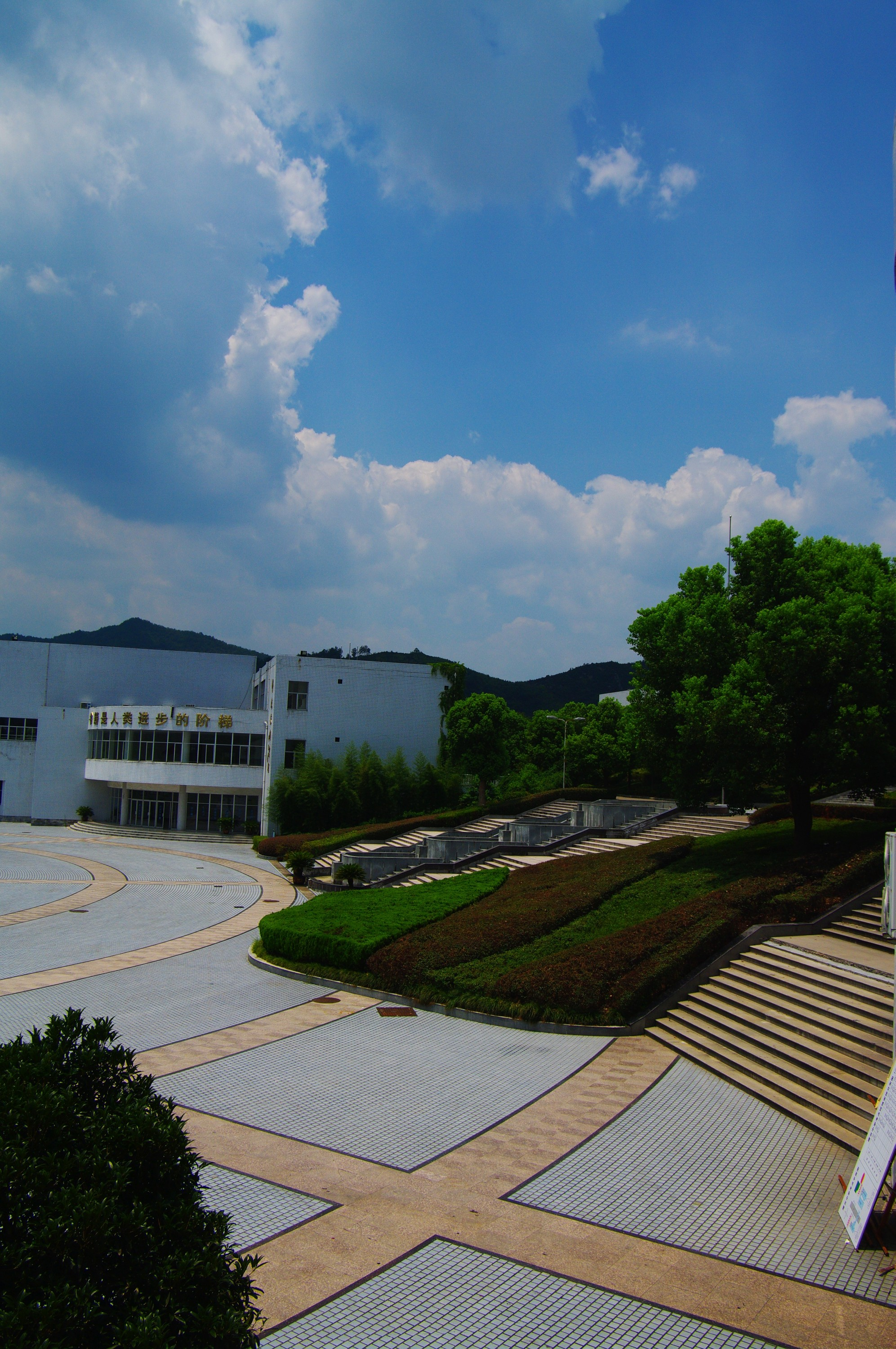 Jin Yun Middle School which is the best Middle school in Li Shui City. And it has a histroy about more than 100 years.